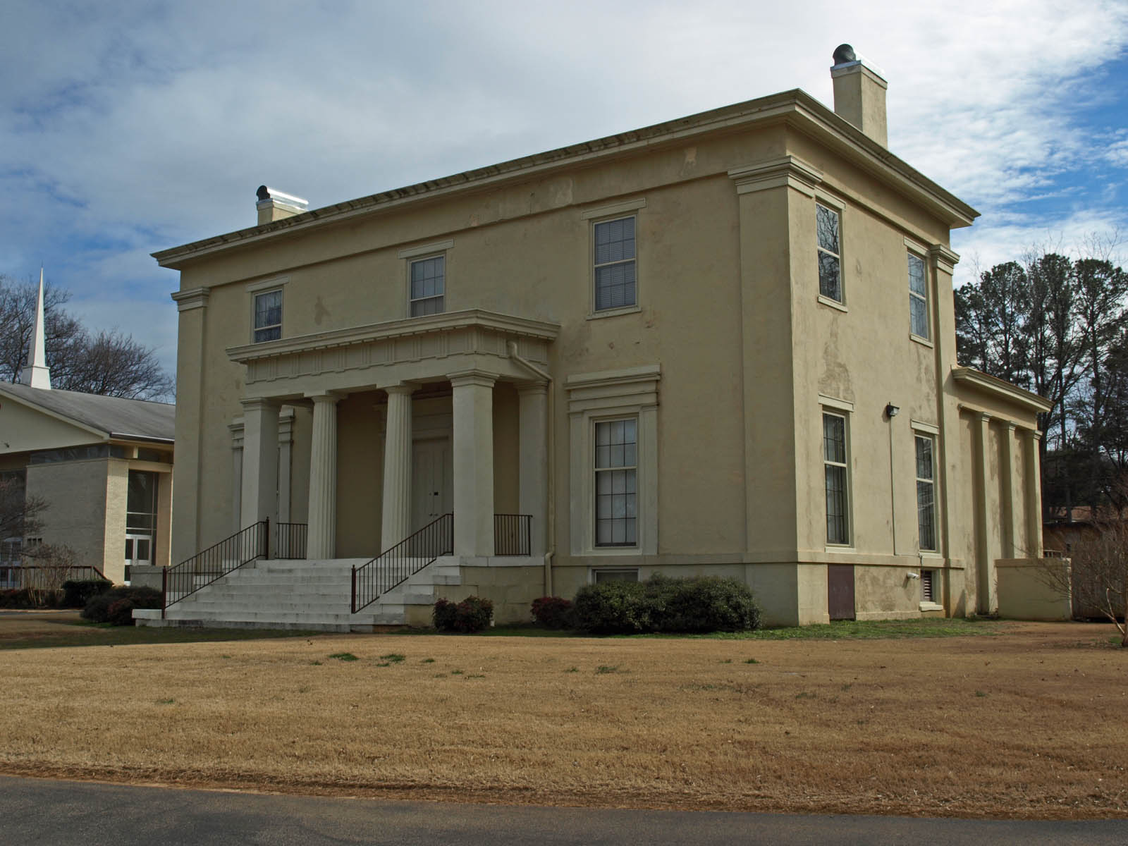 Oak Place in Huntsville, Alabama, listed on the National Register of Historic Places